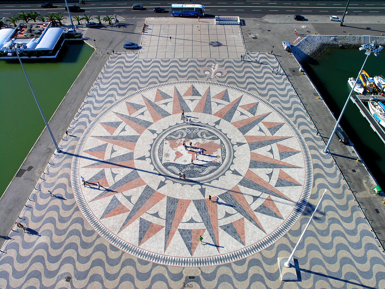 The wind rose map made into the ground leading up to the monument